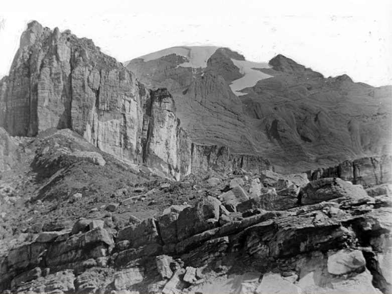 Wilhelmina Top (Puncak Trikora) New Guinea 1913 from south by P.F.Hubrecht (1880-1929)